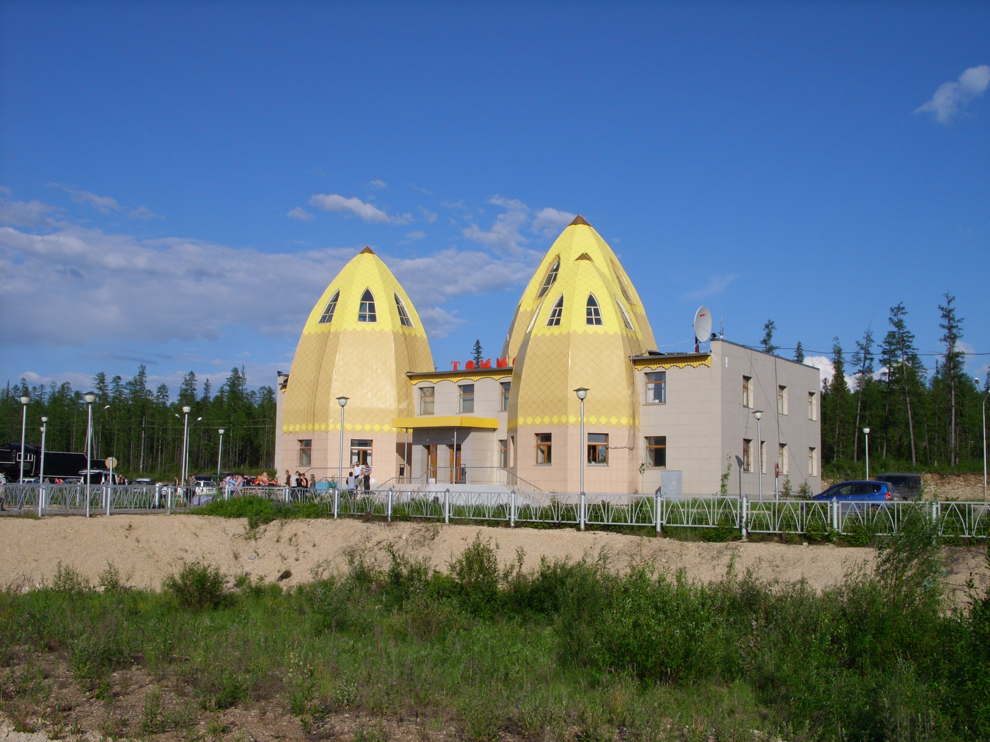 Passenger terminal (see also: Urasa) of Tommot station in the Tommot city, Aldansky District, Sakha Republic